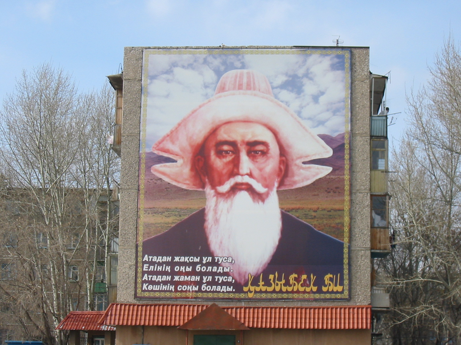 Giant poster of Kazybek Biy in Karaganda, Kazakhstan. Caption on poster, in Kazakh: "Атадан жақсы ұл туса, елінің оңы болады. Атадан жаман ұл туса, көшінің соңы болады." Approximate translation of caption: "If a good son is born to a father, he will become his country's good side. If a bad son is born to a father, he will become the end of a nomadic move."